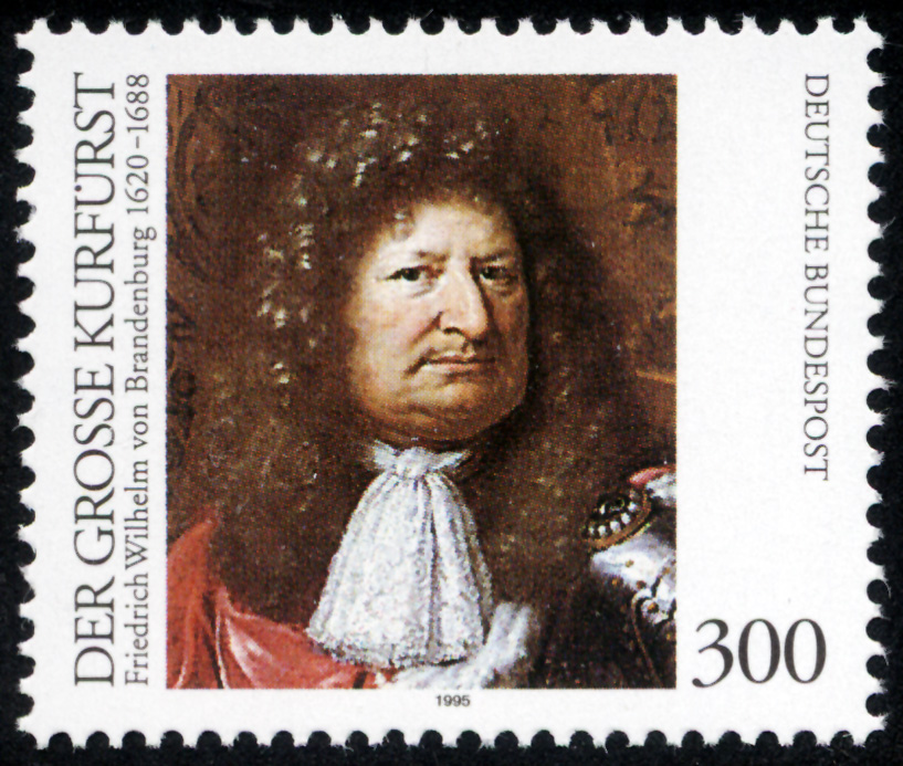 Stamp from Deutsche Post AG from 1995, 375th birthday of Frederick William I, Elector of Brandenburg